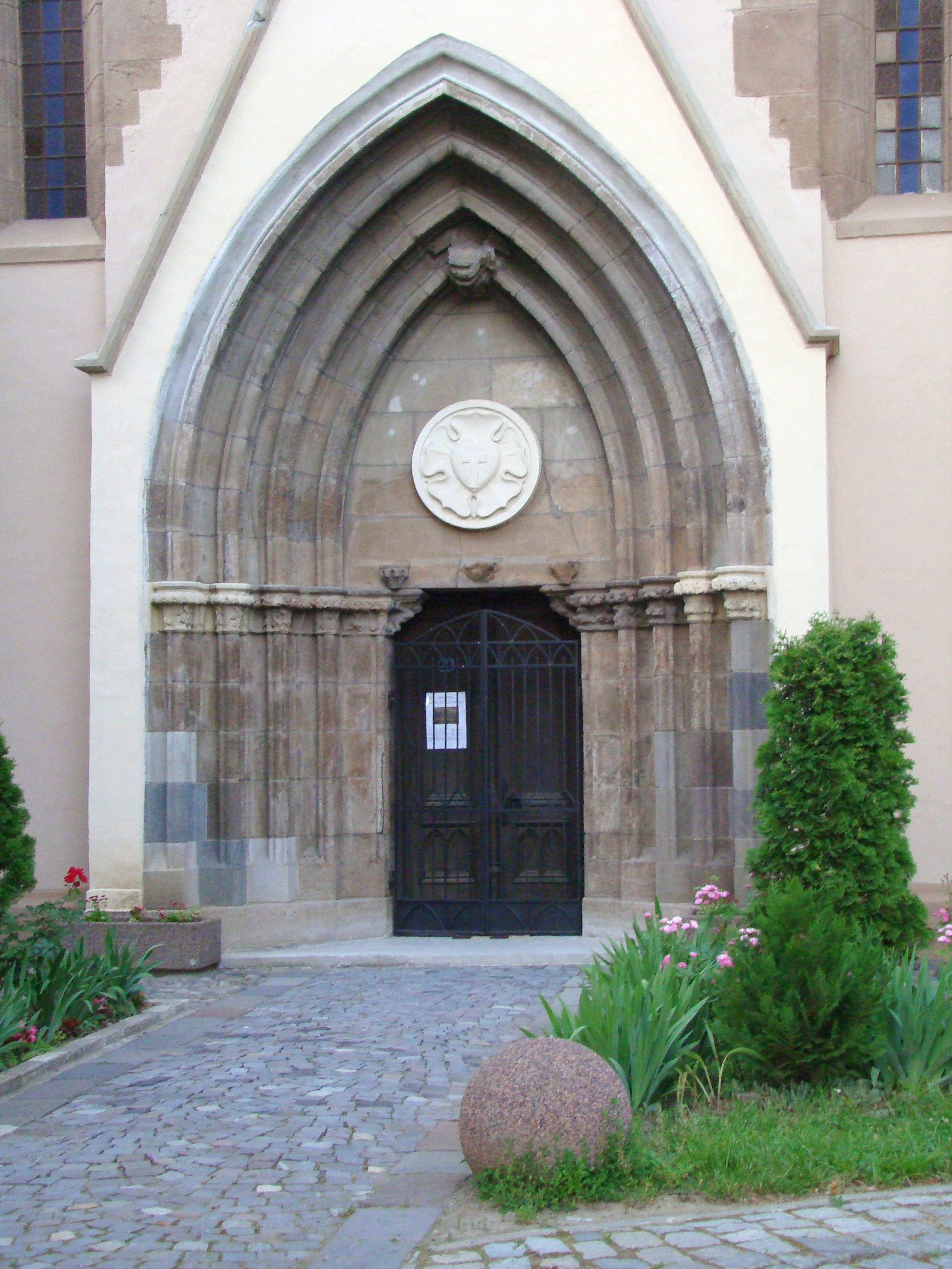 Lutheran church in Reghin, Mureş county, Romania 01